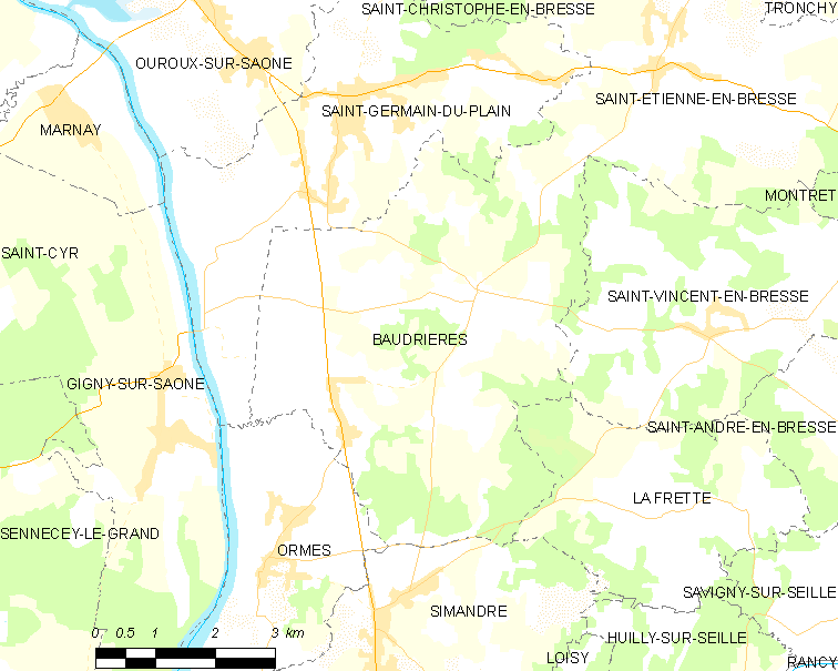 Map of French municipality